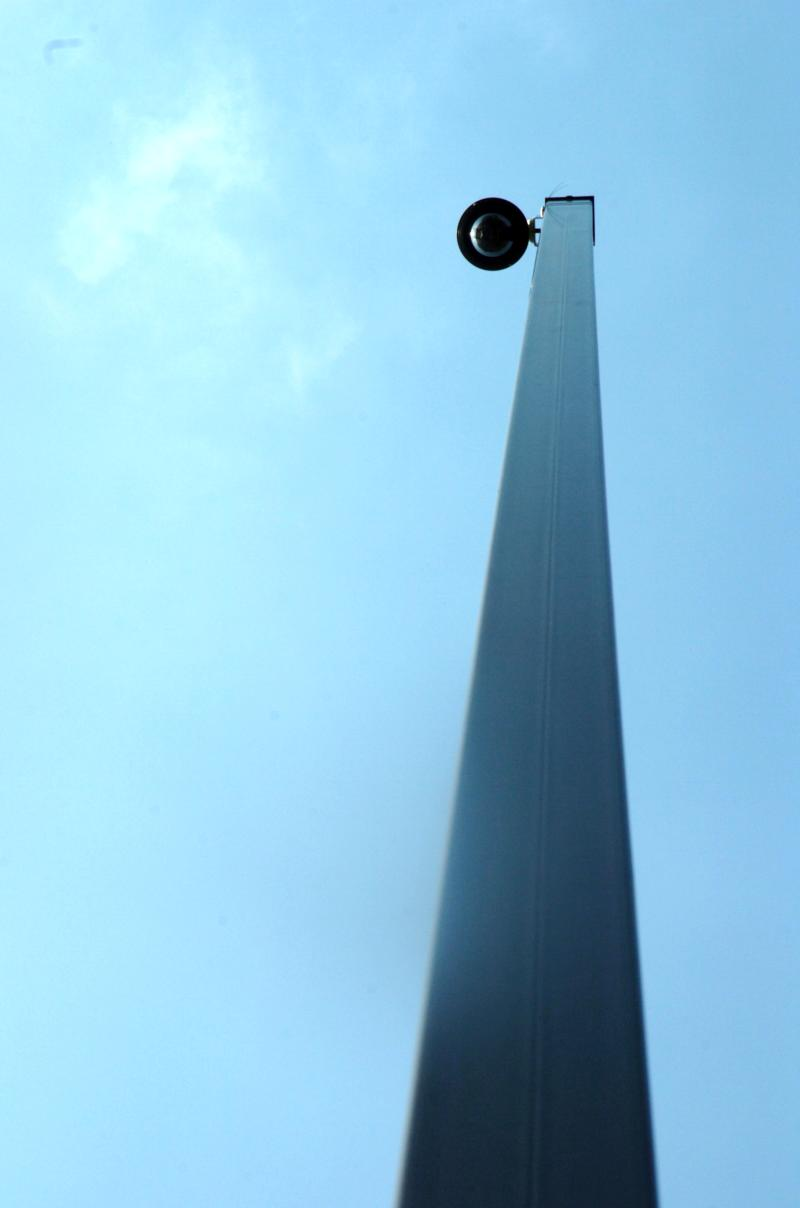 The all-seeing "eye in the sky" Taken June 5, 2004, McMaster University parking lot, Hamilton, Ontario, Canada. Captured using a modified Nikon D2h, with wearable computer system, late in the afternoon.